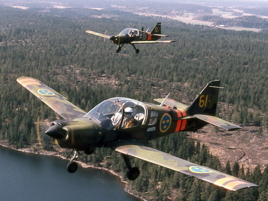 Scottish Aviation Bulldog, Swedish Army designation "FPL 61C". Eventually transferred to Swedish Air Force as "SK 61C"